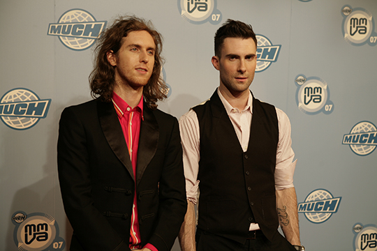 Jesse Carmichael and Adam Levine of Maroon 5 were attendees at the 2007 MuchMusic Video Awards, held the night of Sunday, June 17, 2007 in Toronto, Ontario, Canada.